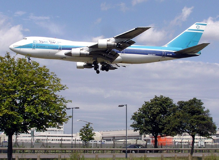 El Al Israel Airlines Boeing 747-200 (4X-AXQ) very close to landing at London (Heathrow) Airport.